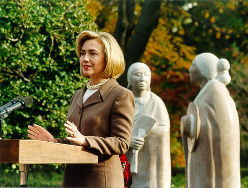 From HTML source: [PHOTO: Mrs. Clinton at opening of VI Sculpture Garden Exhibit] First Lady Hillary Rodham Clinton at opening of "Exhibition 6: Honoring Native America, October 1997 through October 1998" at the White House Jacqueline Kennedy Garden. See this Sculpture magazine article for more.